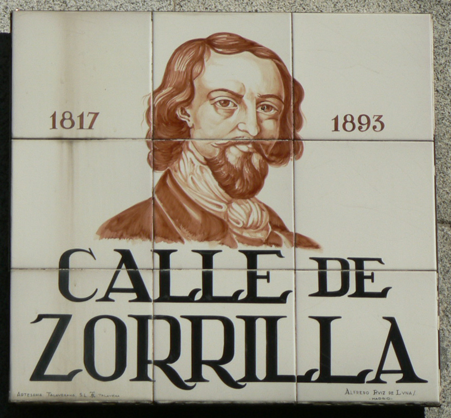 Sign of Calle de Zorrilla (street, Centro district) in Madrid (Spain)